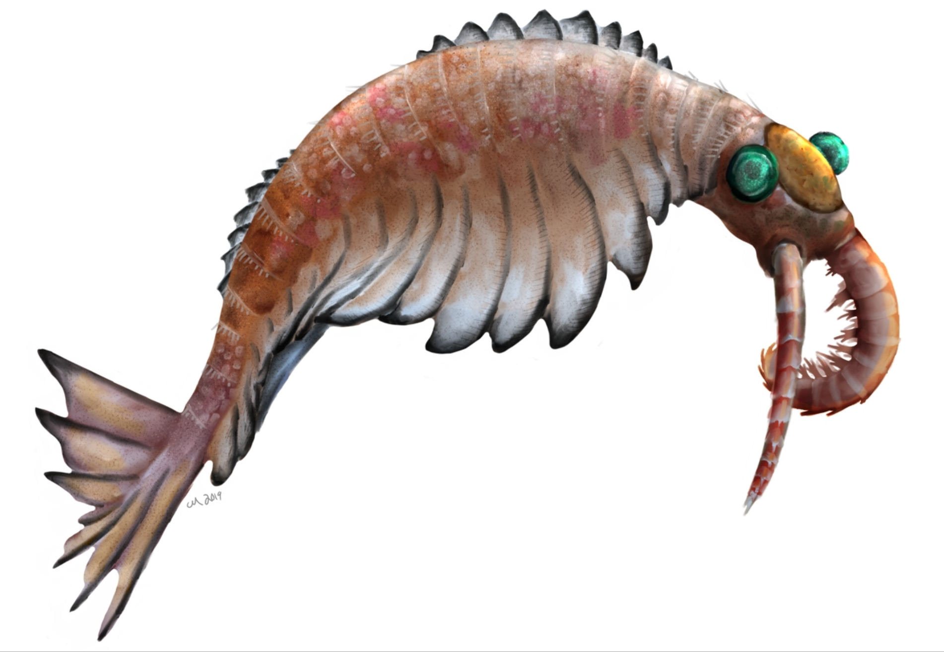 A reconstruction of Anomalocaris canadensis